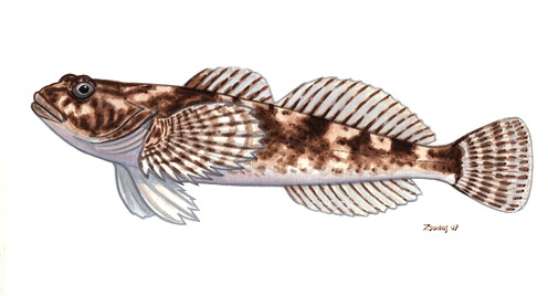 Alpine bullhead or Siberian bullhead (Cottus poecilopus).